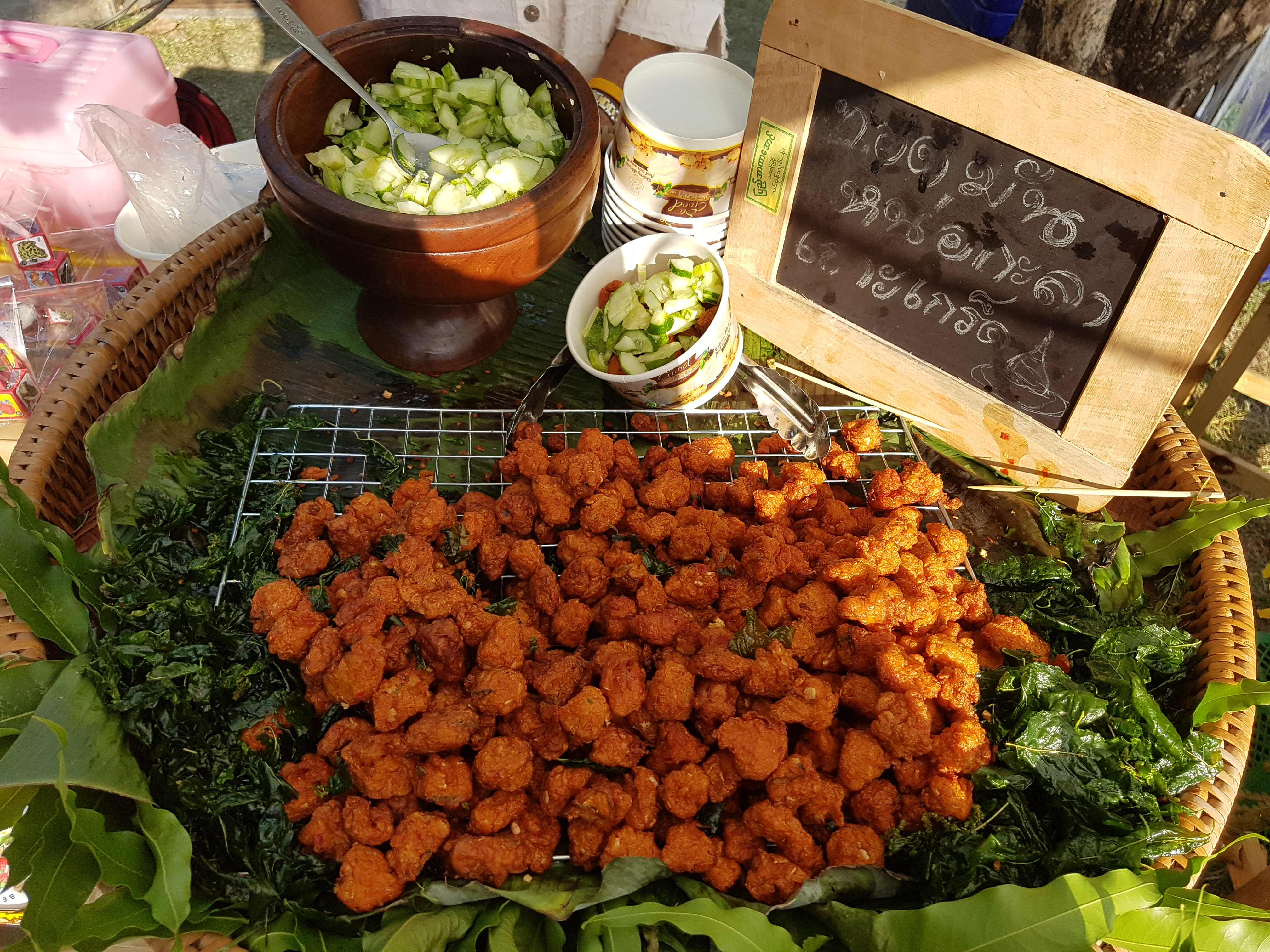 Fried torch-ginger patties (ทอดมันหน่อกะลา) sold inside Bangkok National Museum, Bangkok, Thailand.